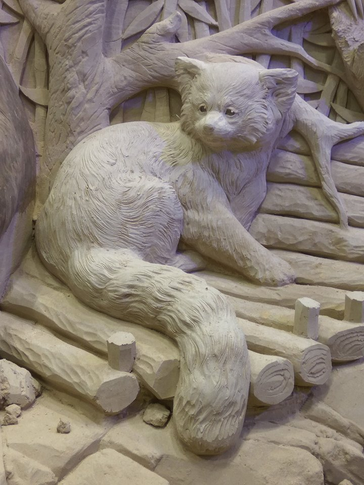 Ocean Park Hong Kong 40th. Red Panda Sand Sculpture